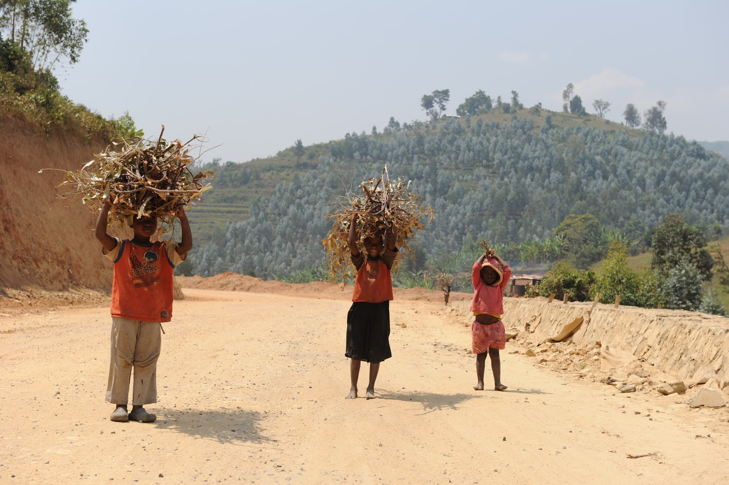 This is an image with the theme "Africa on the Move or Transport" from: Rwanda